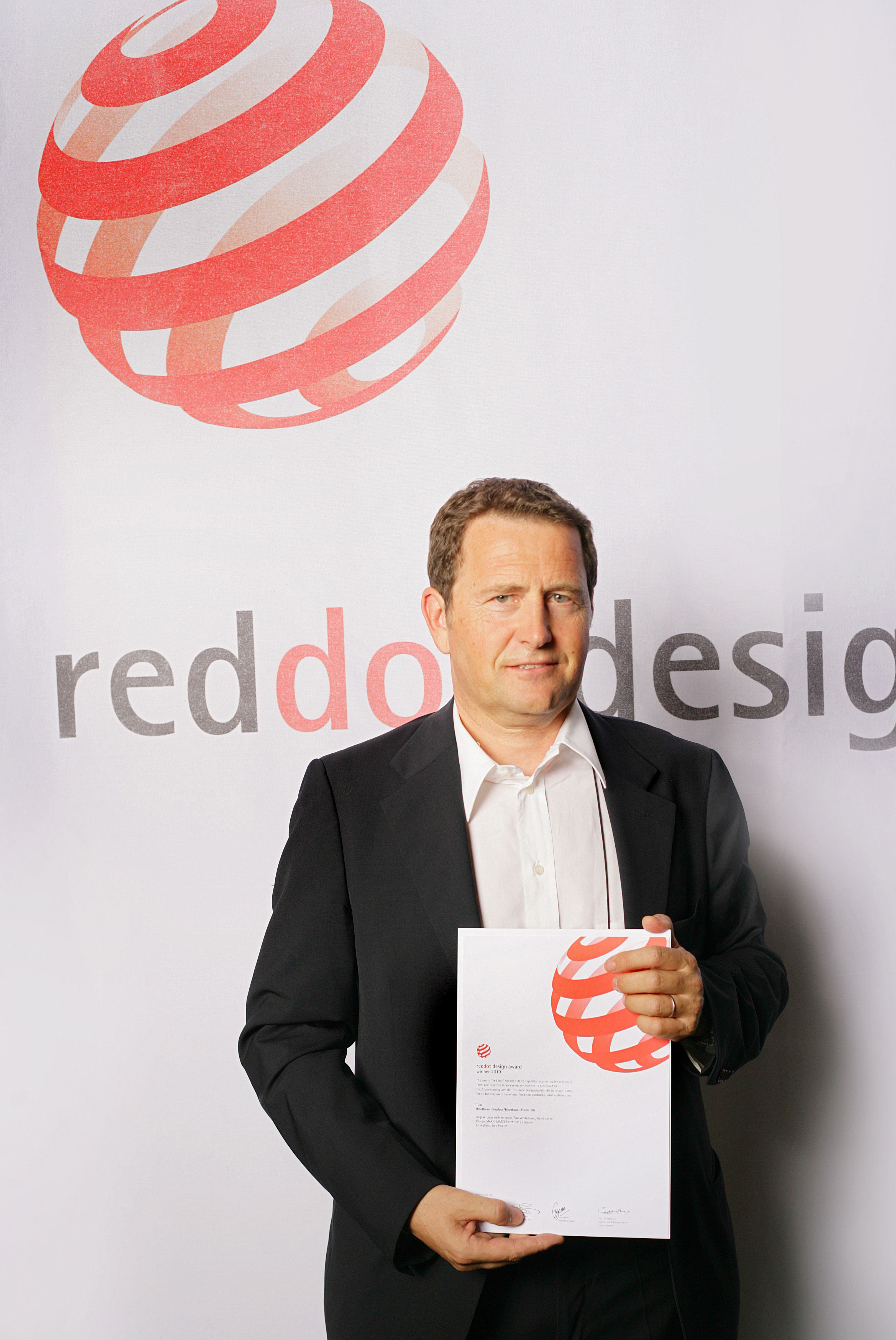 Designers' night at the Red Dot Award 2010